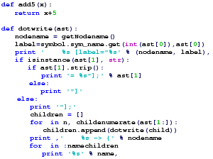 Python